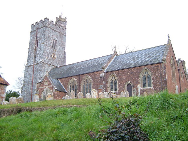 Rockbeare church. The restored medieval St Mary's, on an eminence at the north end of the village. View from SE.